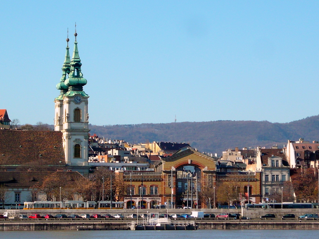 Battyány Square from Pest, Budapest